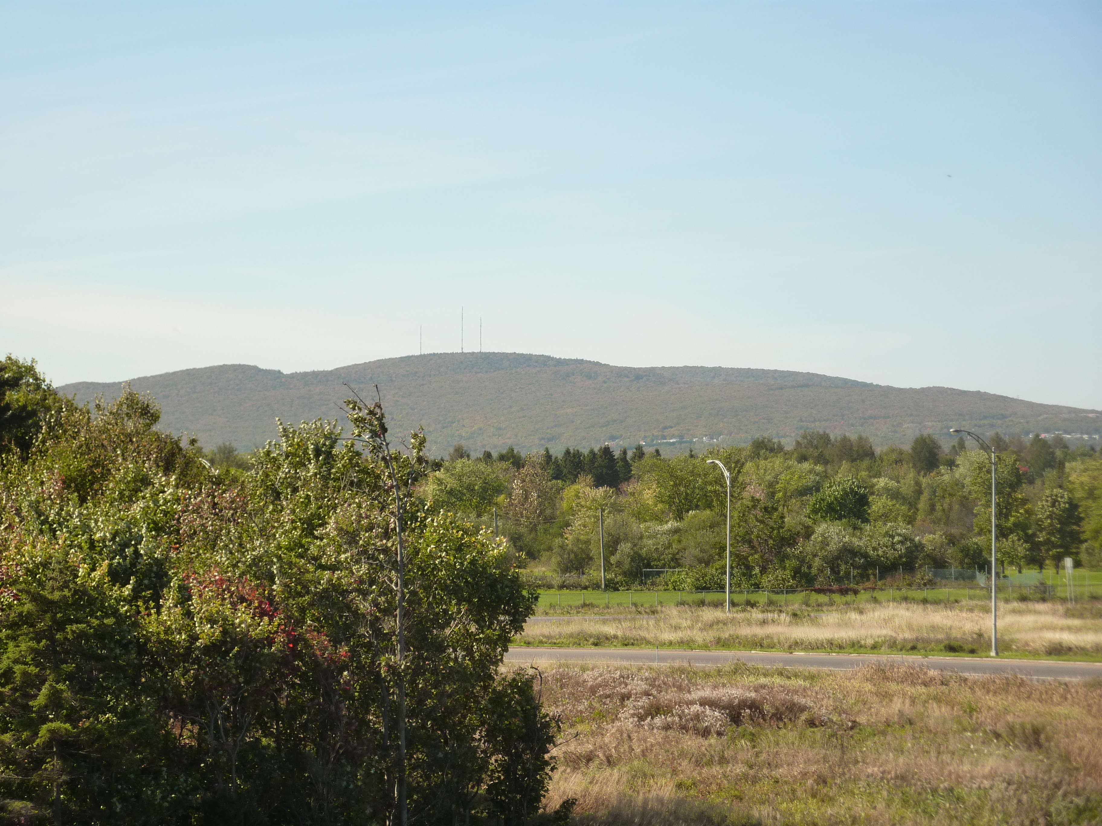 Mont Bélair ("Belair Mountain"), Quebec city, Quebec, Canada; as seen from the crossing of Chauveau Avenue and Henri-IV highway, september 2011.